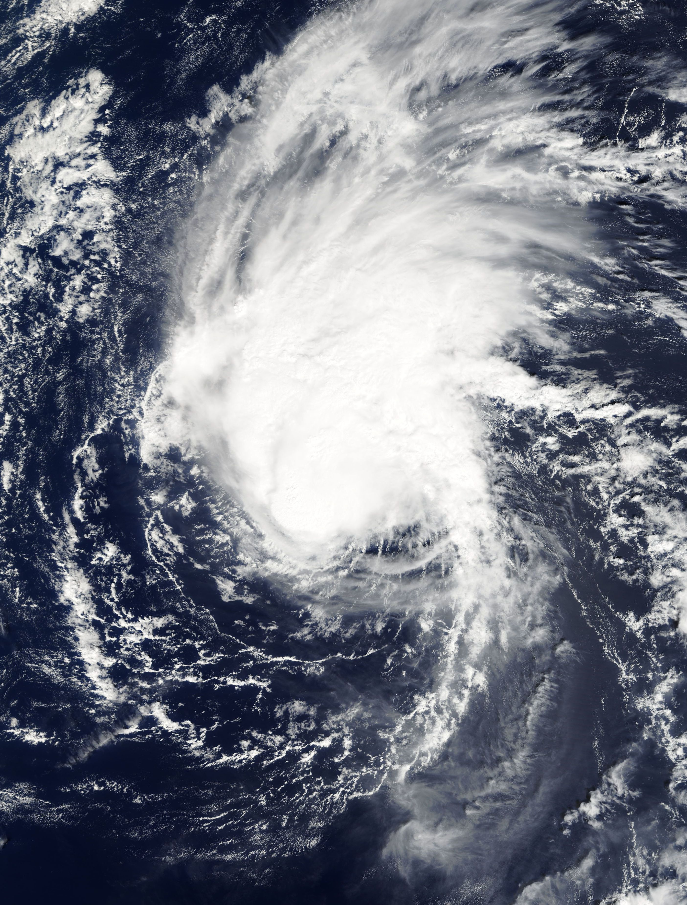 This image shows Hurricane Huko in the Pacific Ocean at 2155 UTC on November 1, 2002. The storm's maximum sustained wind speeds were about 85 mph and the minimum pressure was approximately 980 mb.